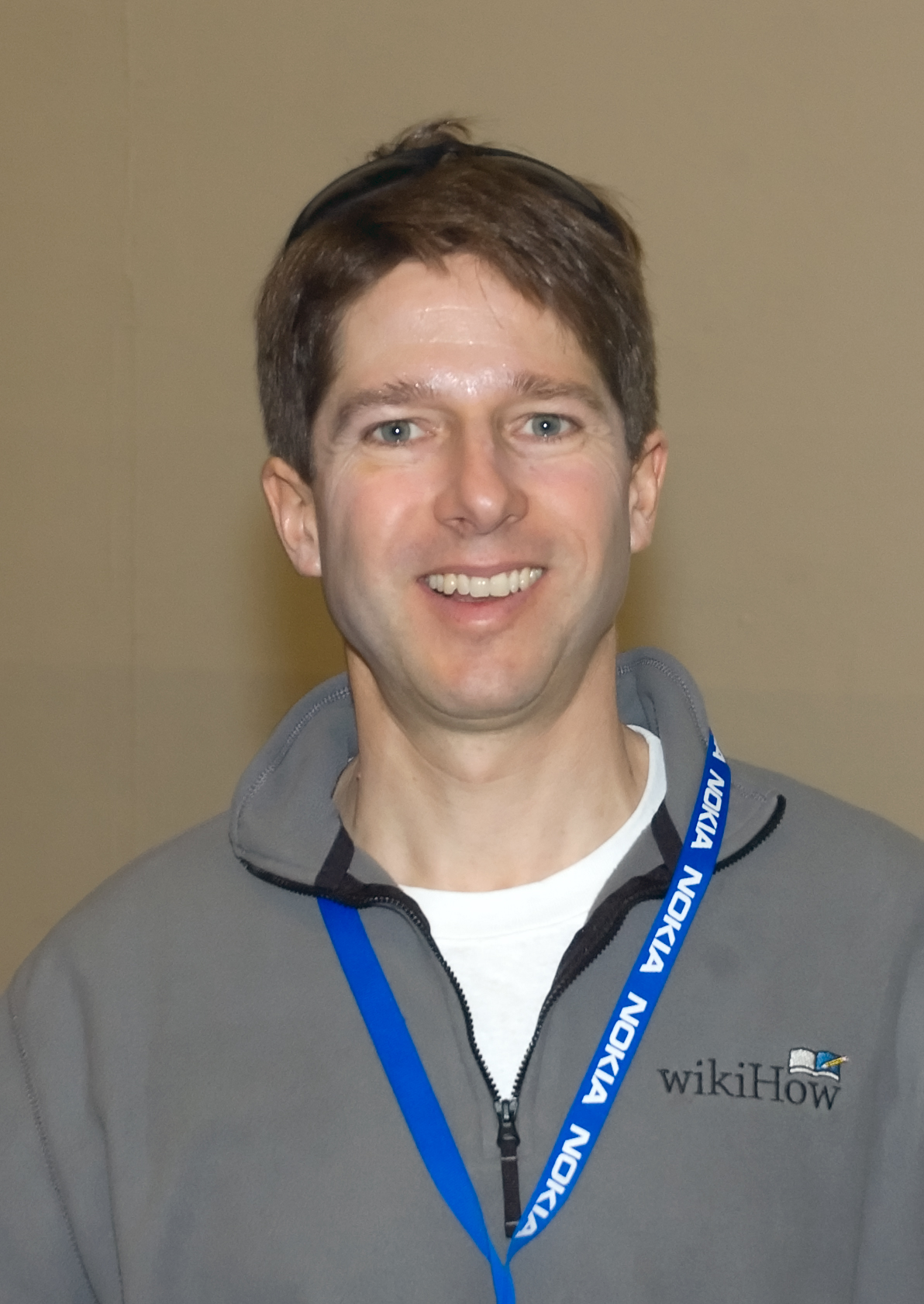 Jack Herrick of Maker Faire